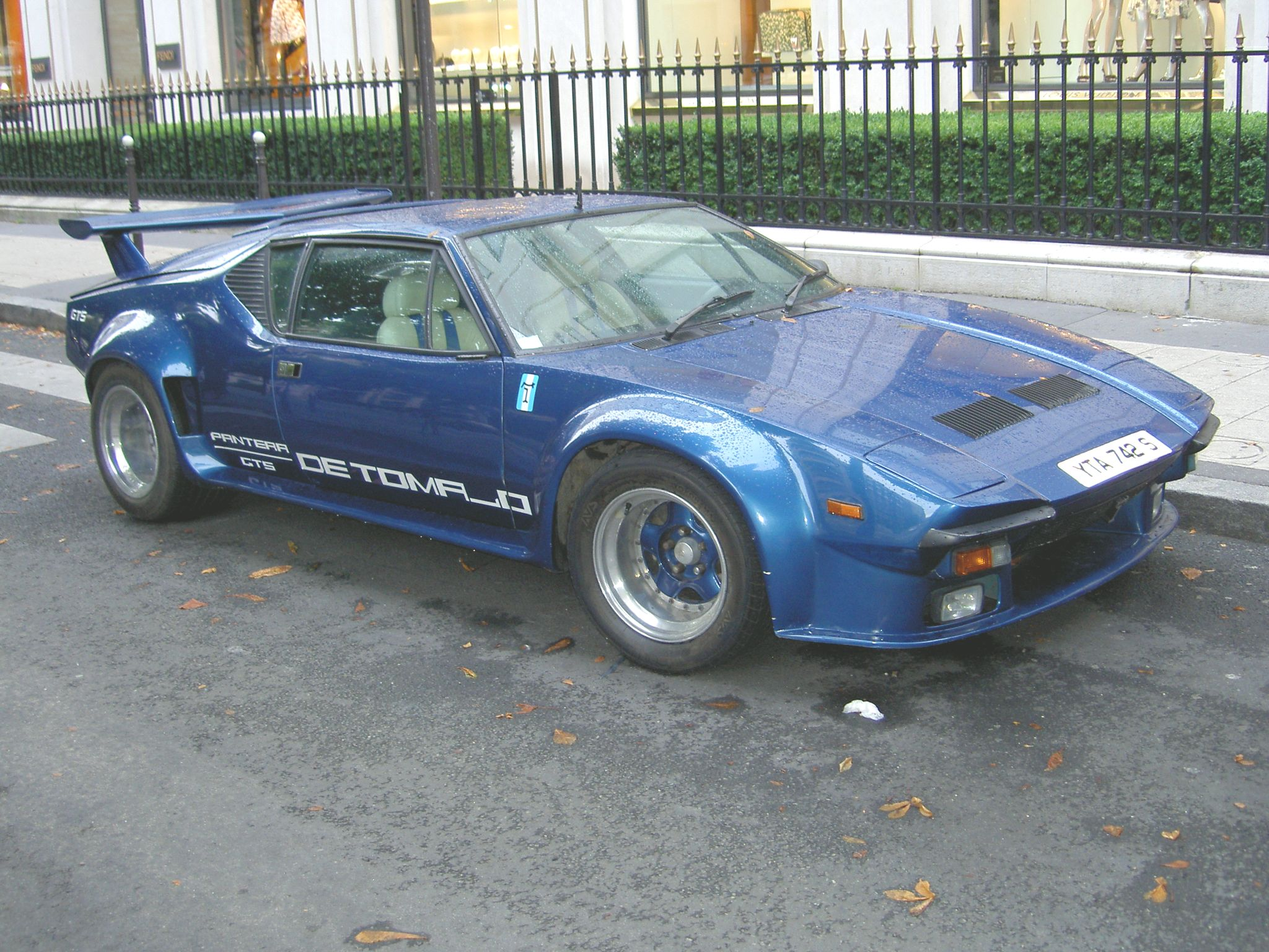 earlier De Tomaso Pantera modified to GT5 appearance